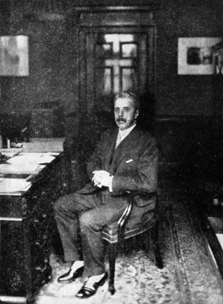 Arnold Bennett (1867–1931) was an English novelist..